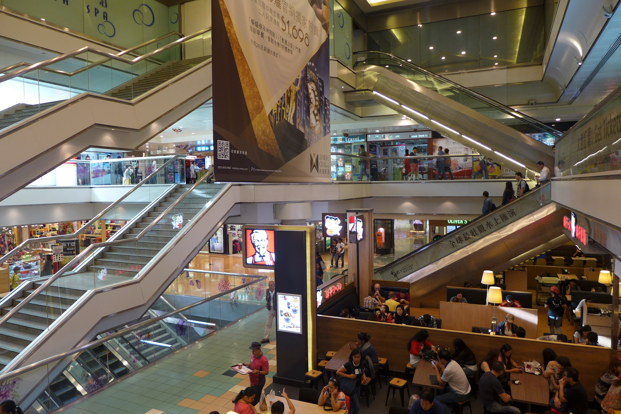 Shun Tak Centre East Void